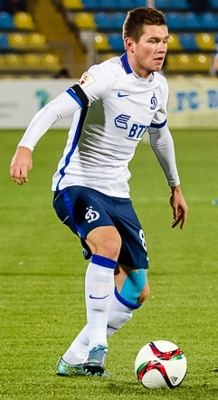 Aleksandr Tashayev